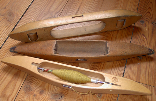 Shuttles (for hand-weaving) of different age.